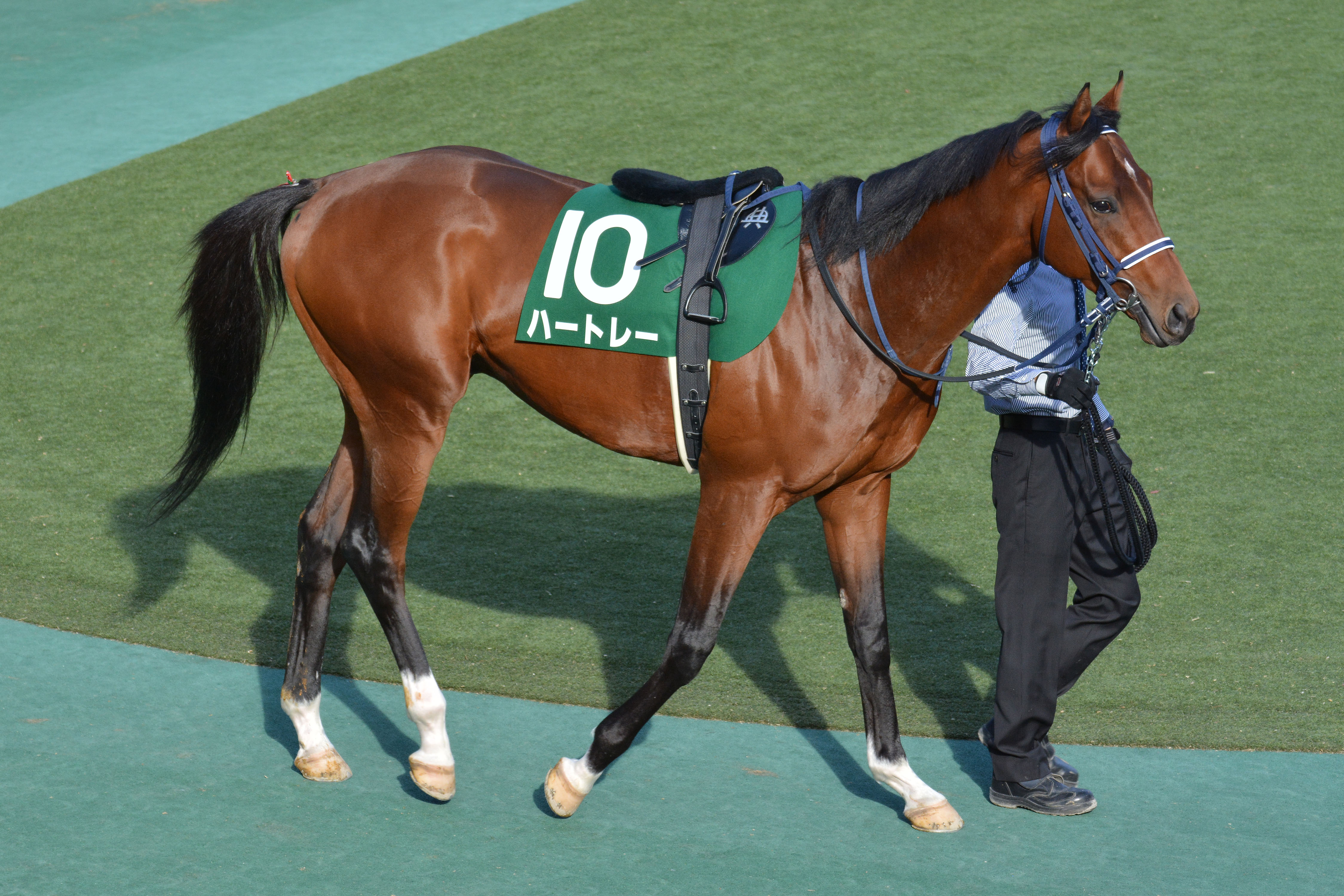 Japanese racehorse Hartley at Tokyo racecourse(2016-02-14).